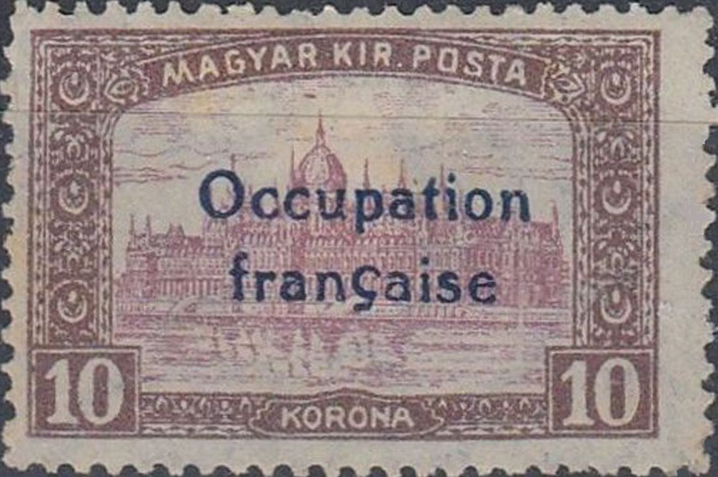 1919 Arad Occupation 2